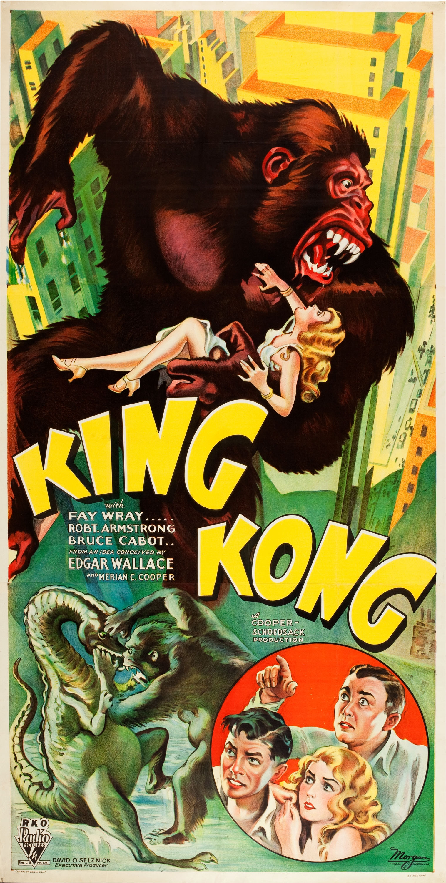 Poster for the 1933 film, King Kong. Printed by "Morgan Litho Co., Cleveland, USA" (bottom). Three Sheet (40.25" X 79") Style B. Distributed by RKO Radio Pictures.